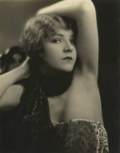 Betty Boyd